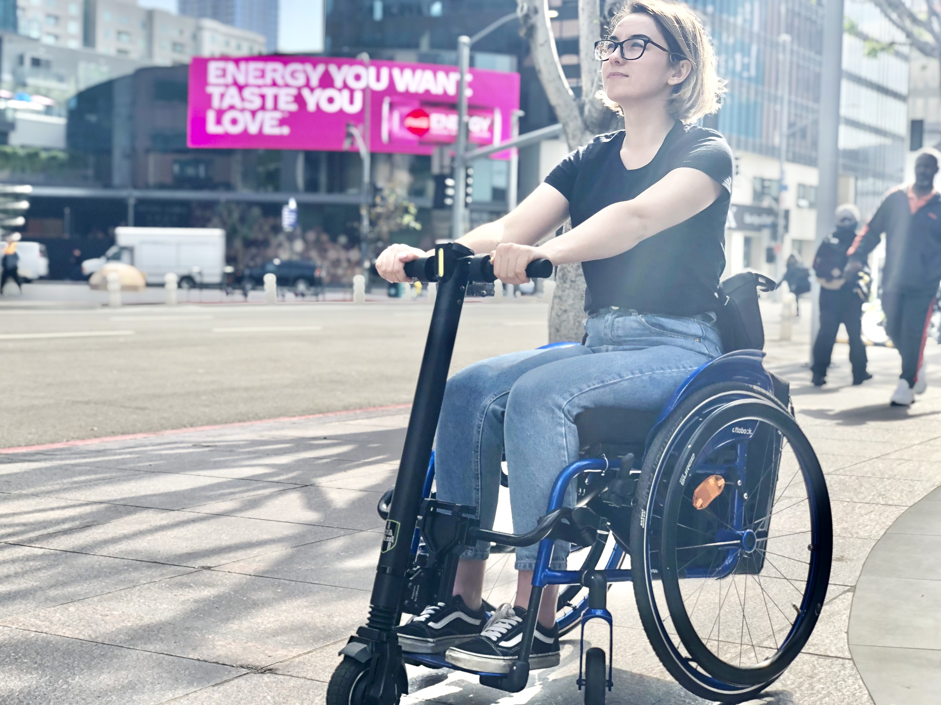 A wheelchair with a lightweight power add-on attached